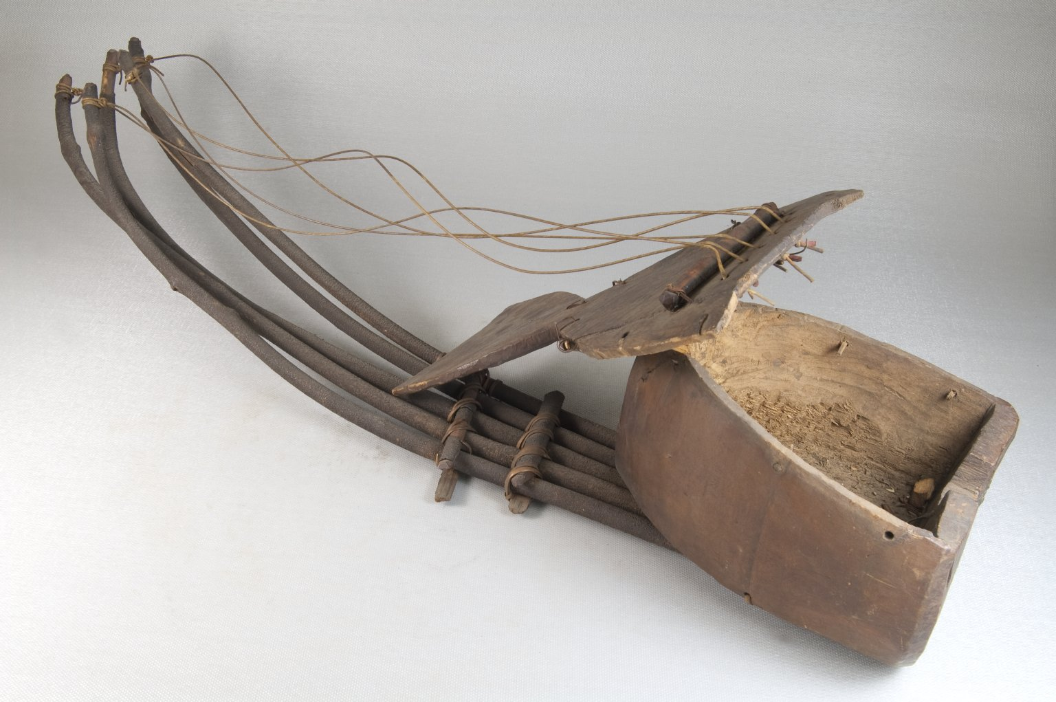 Bow lute (Hornbostel-Sachs 321.1) or pluriarc. Resonator is hollow and triangular in shape. Anterior surface consists of a flat wooden hour glass shaped plane attached by rattan fiber strings. A five arched attachement is inserted into five accomicating holes on posterior surface. Five strings are still attached to guitar. Condition: Worn. Resonator cracked. Strings worn.